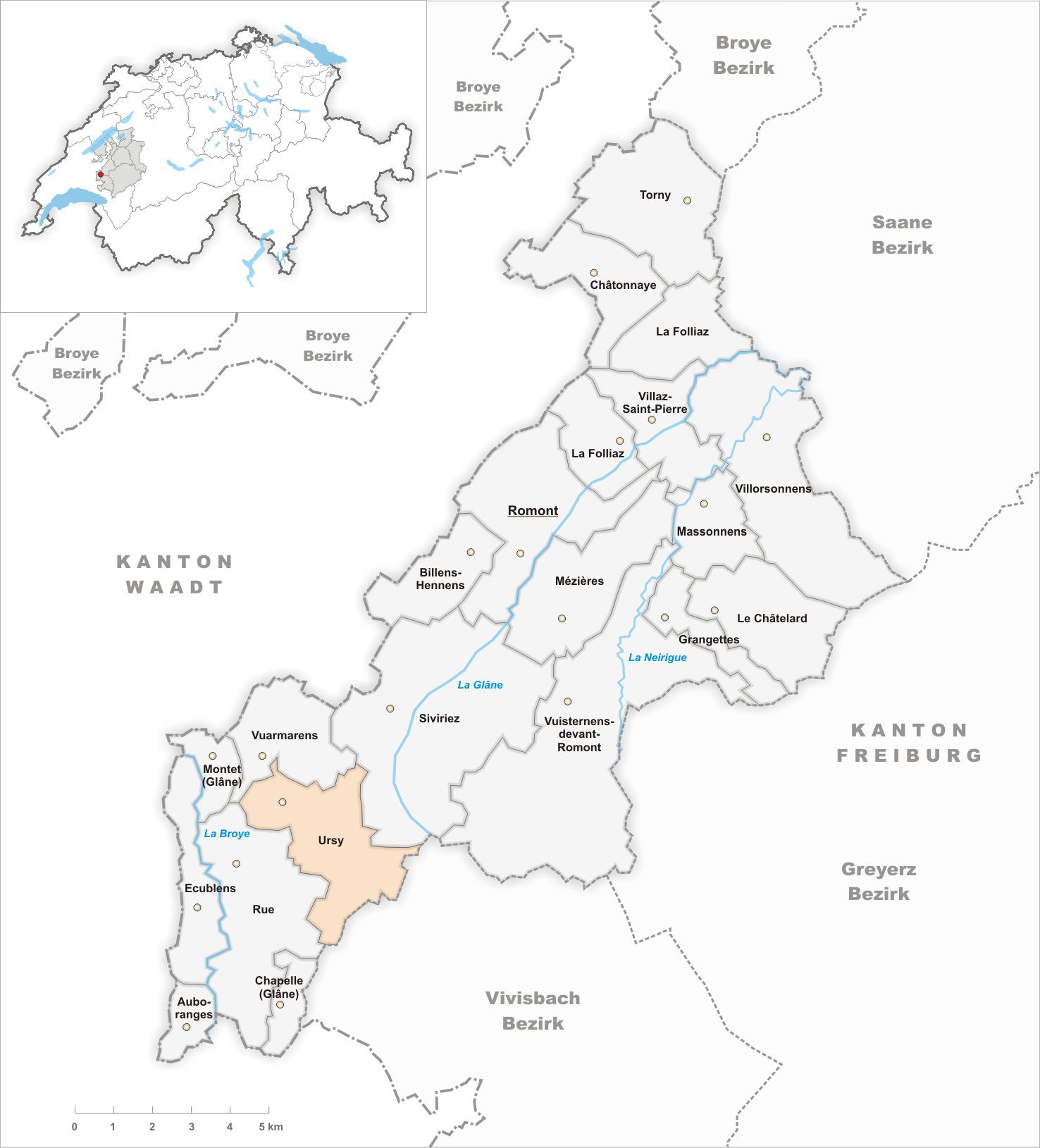 Municipality Ursy